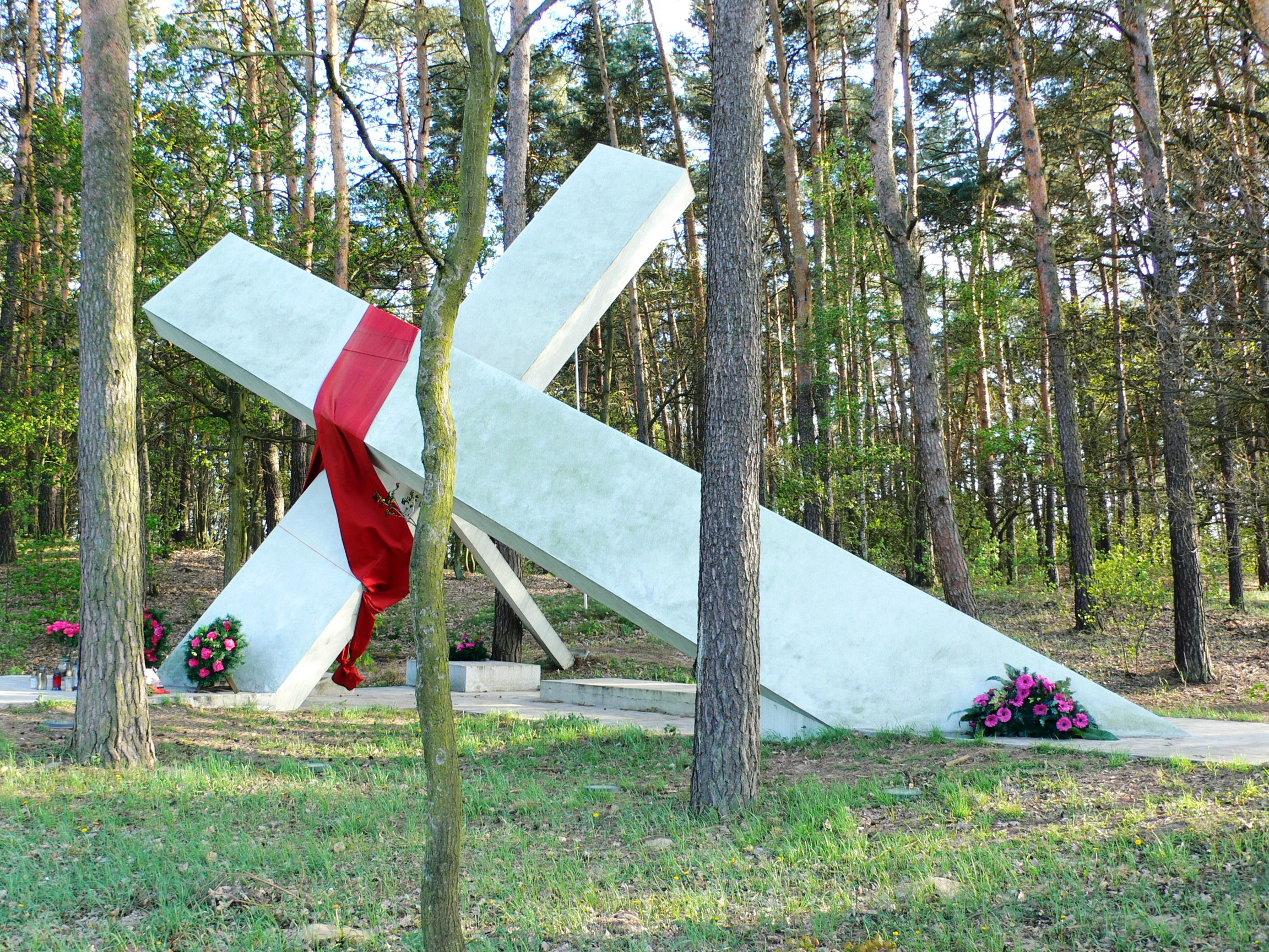 A memorial in the shape of an overturned cross commemorating the kidnapping of Father Joseph Popieluszko in Górsk on 19 October 1984